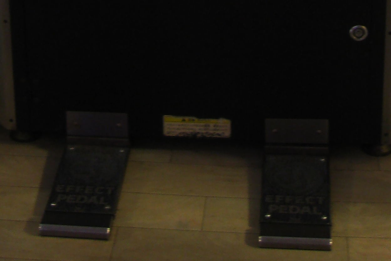 The pedals from beatmania III game series.